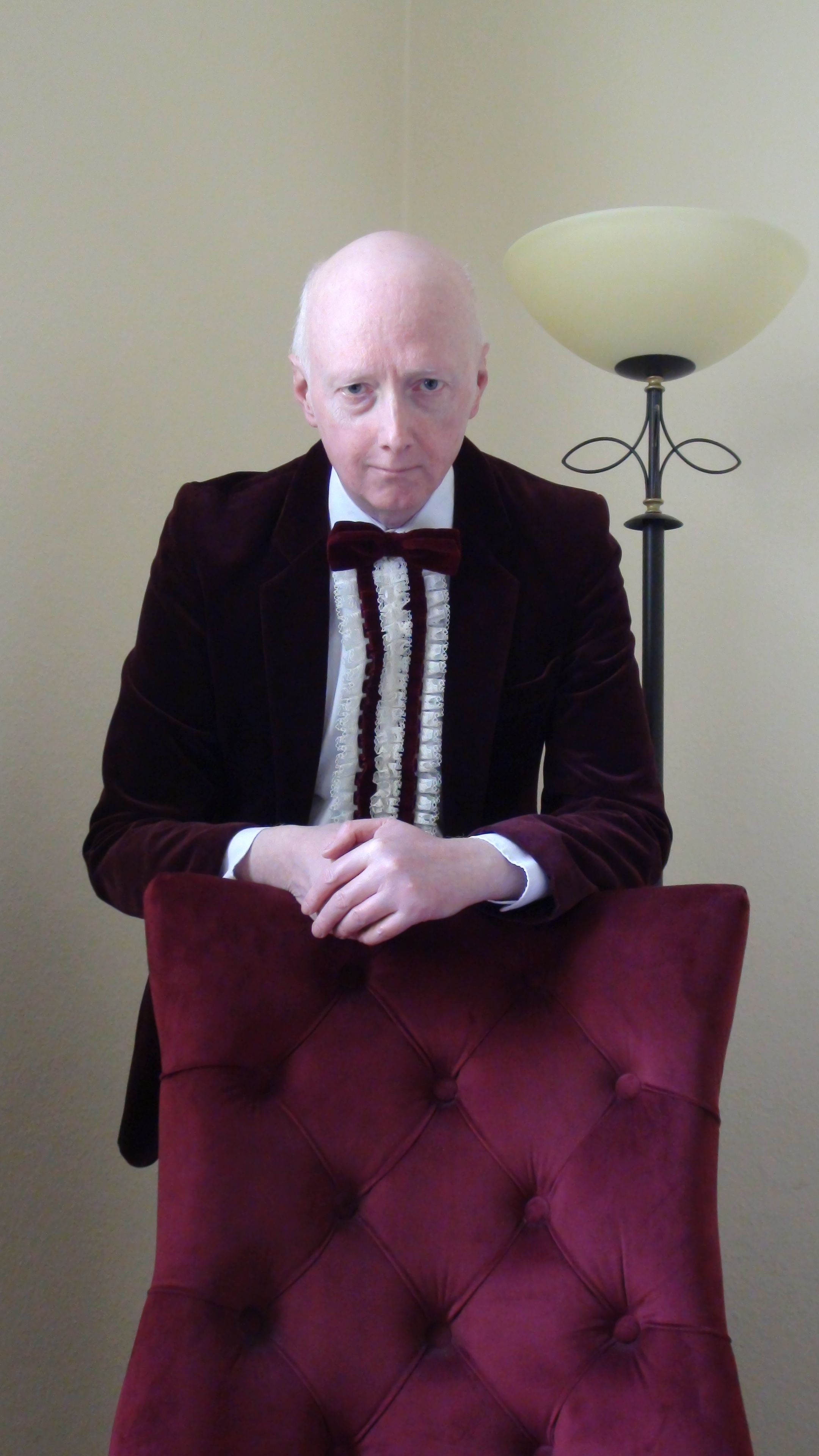 James Peace at home in Wiesbaden, 2019